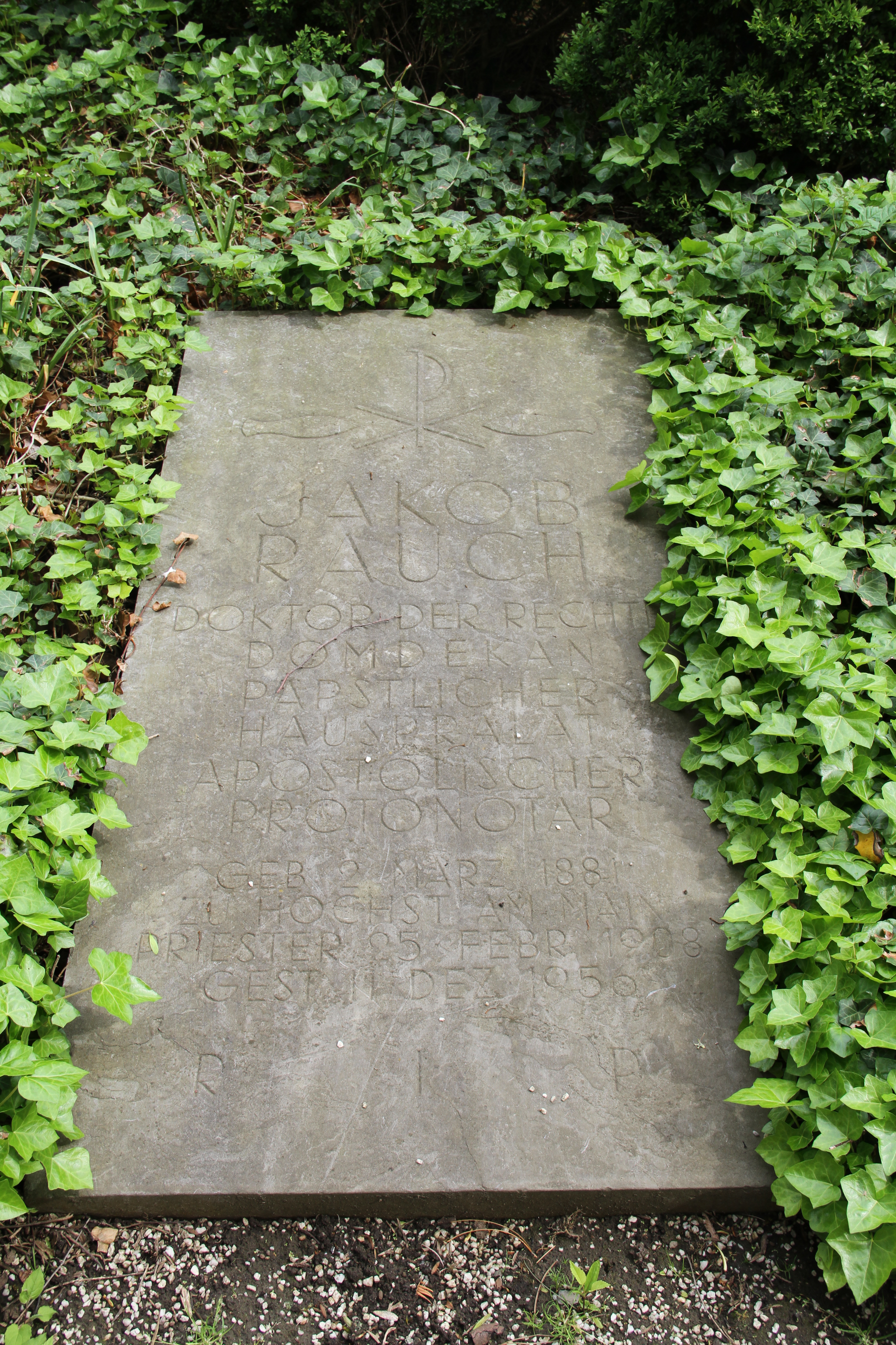 Grablege der Domherren on the former cemetary next to the Limburg Cathedral